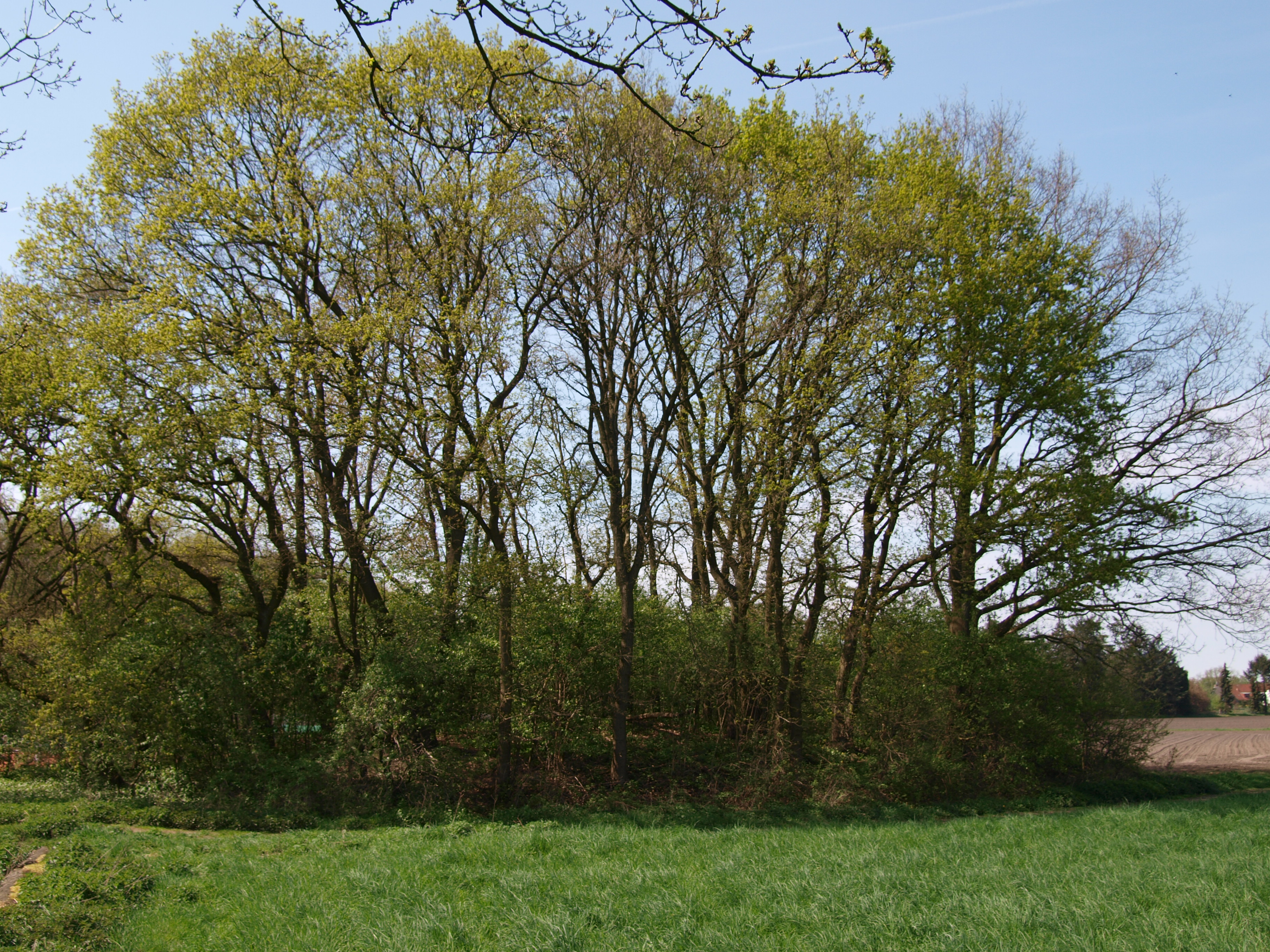 Prehistoric tumulus "Veilchen- oder Lilienberg", findspot 31 in Hamburg-Rissen, Germany This is a photograph of an architectural monument.